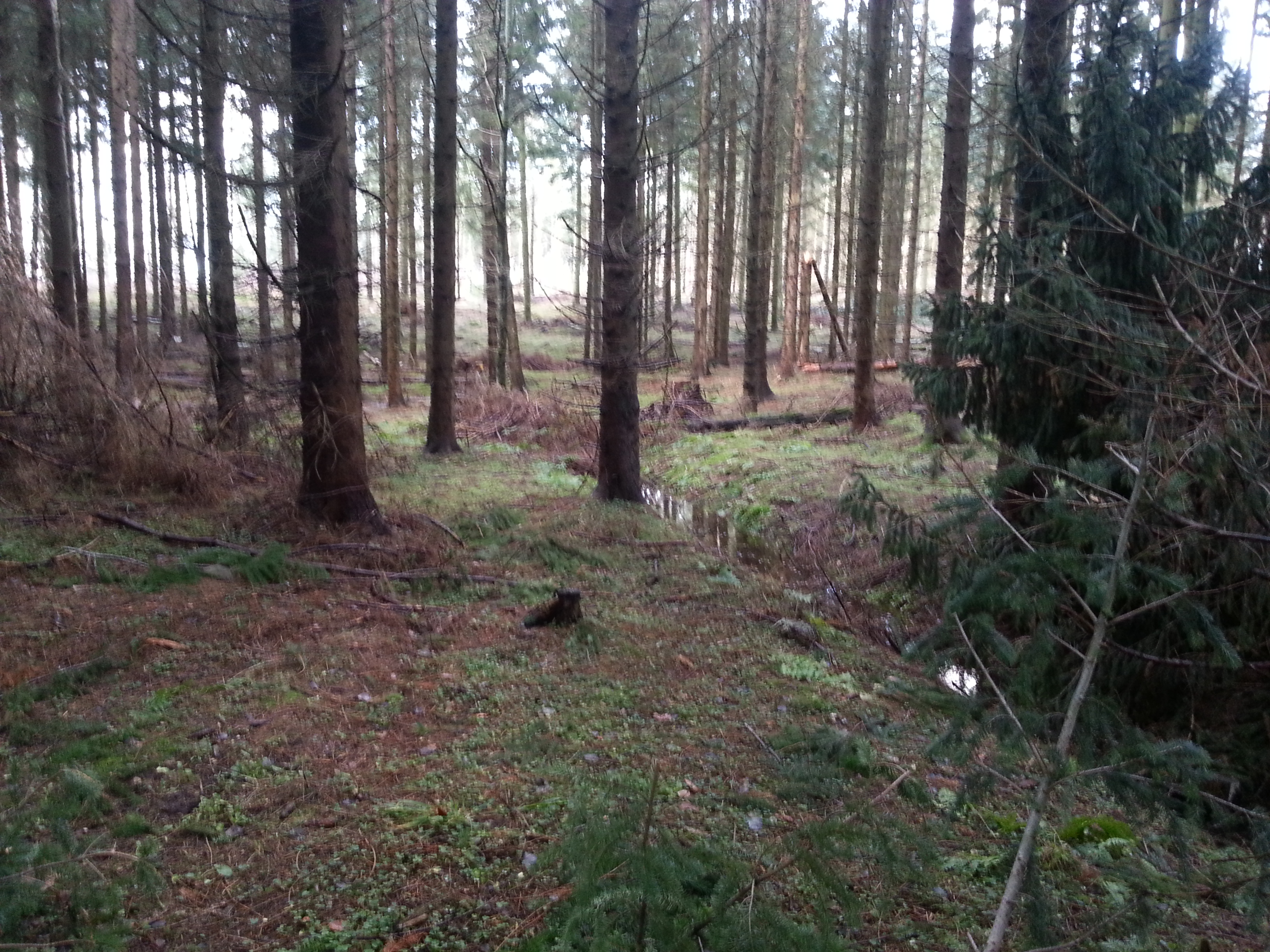 Landscape in Nyrup Hegn